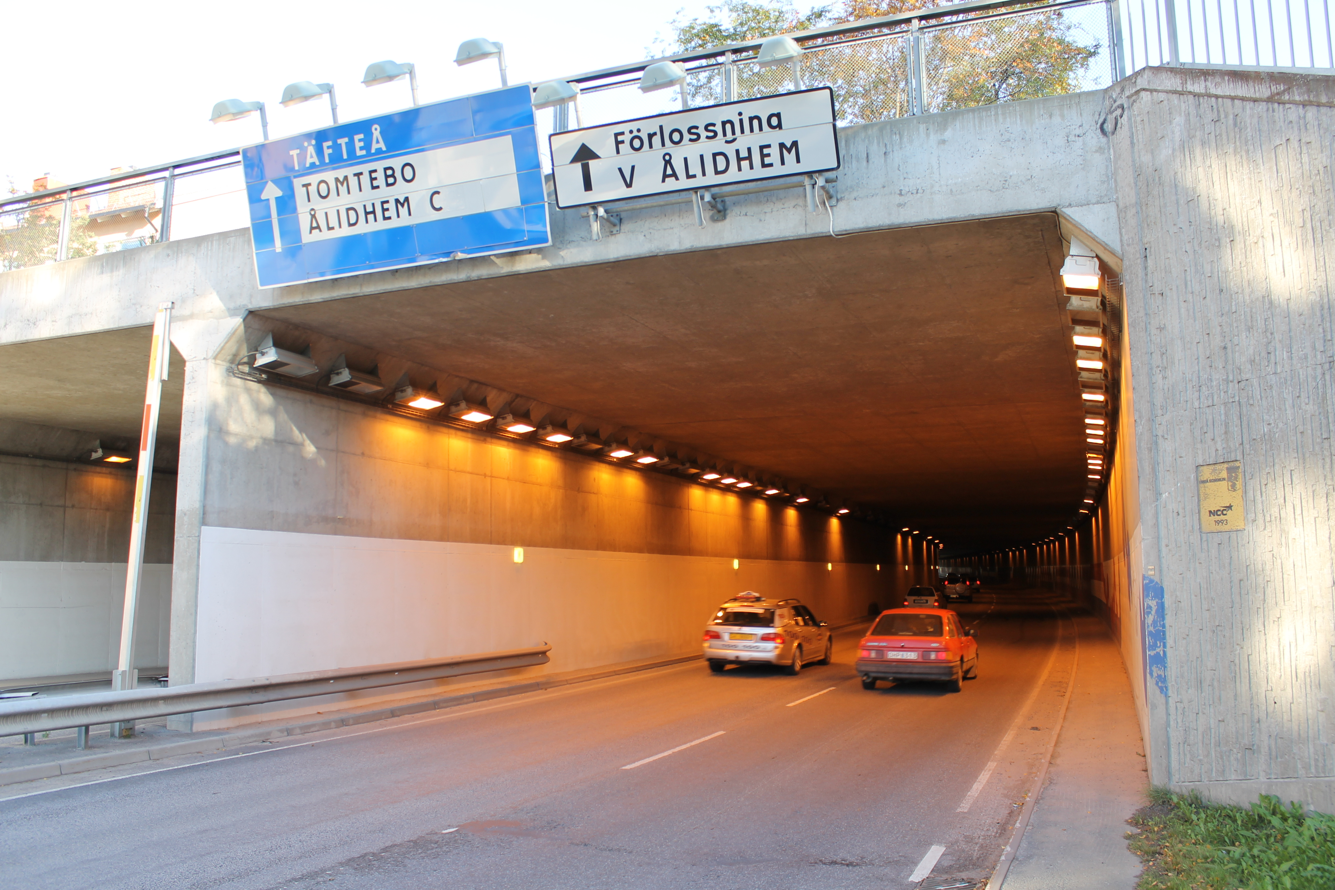 Ålidhemstunneln (The Ålidhem Tunnel), Umeå, Sweden.